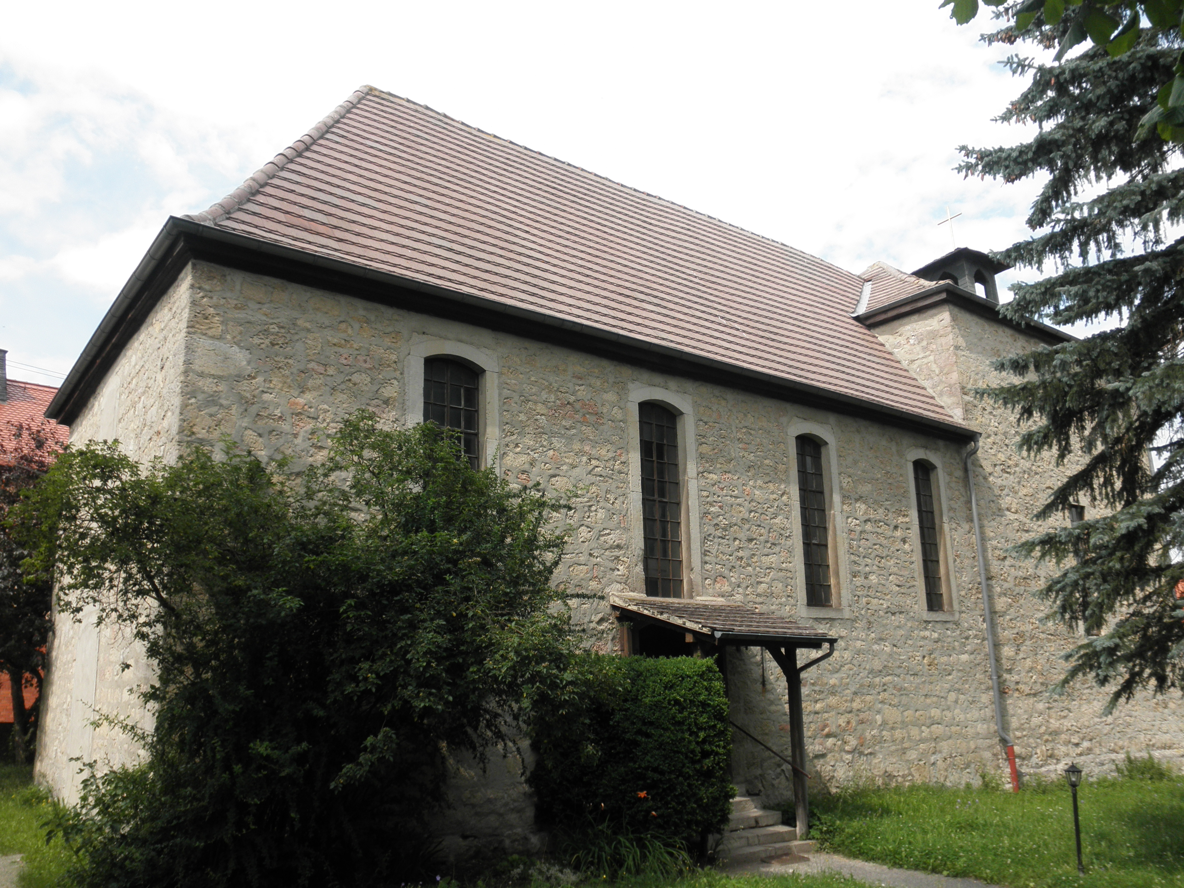 Church in Zimmern (Saale-Holzland-Kreis) in Thuringia